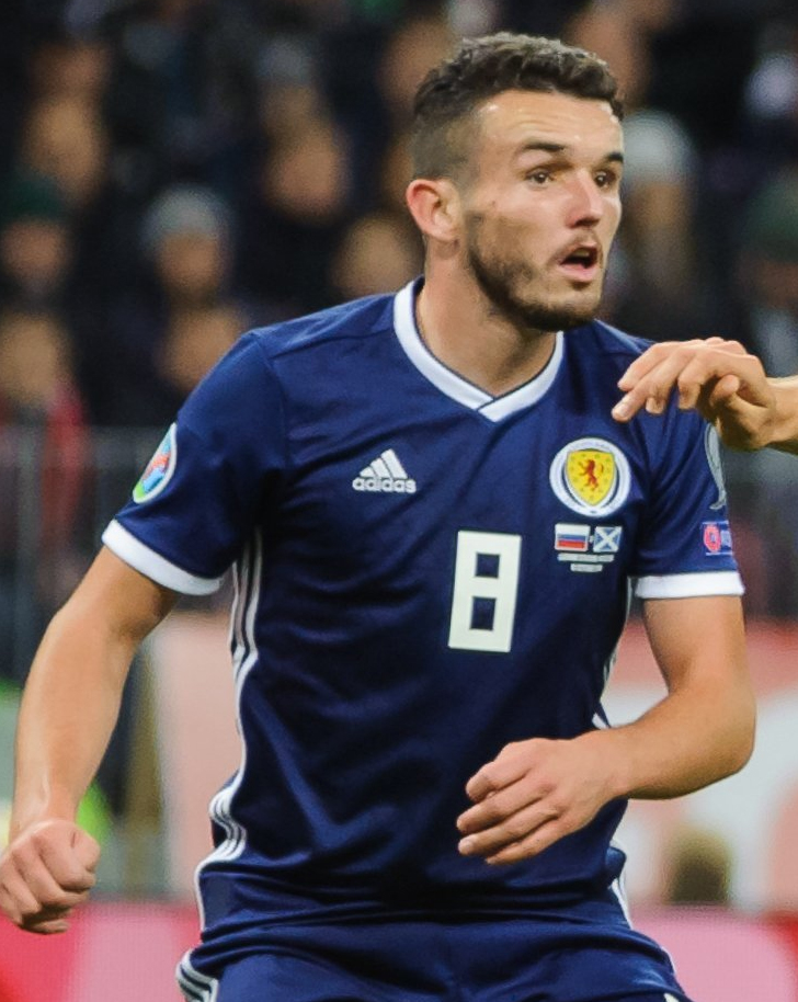 Scottish footballer John McGinn on 10 October 2019, during the 2020 UEFA European Championship qualifying match between Scotland and Russia in Moscow.